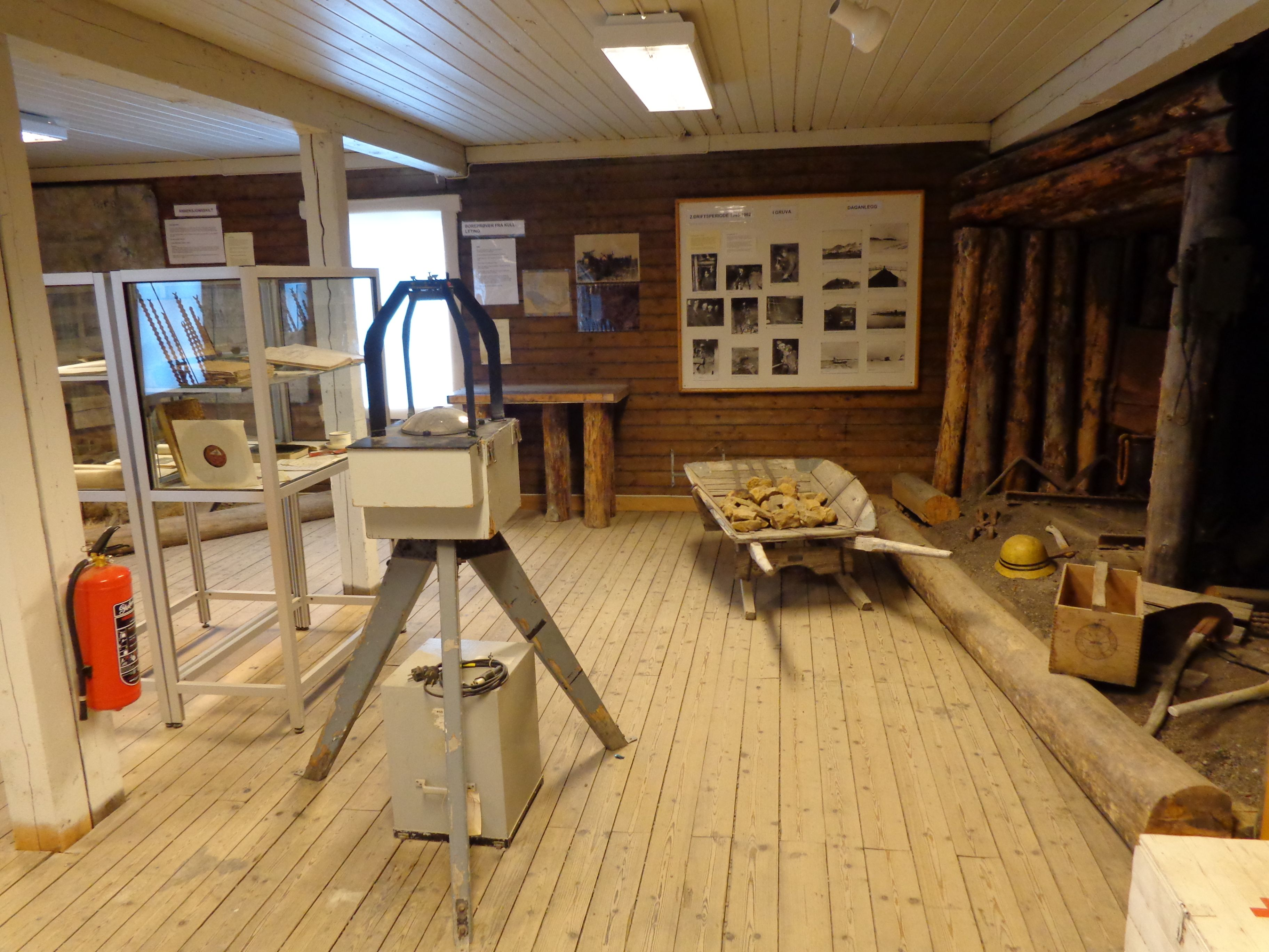 Interior of the museum of Ny-Ålesund